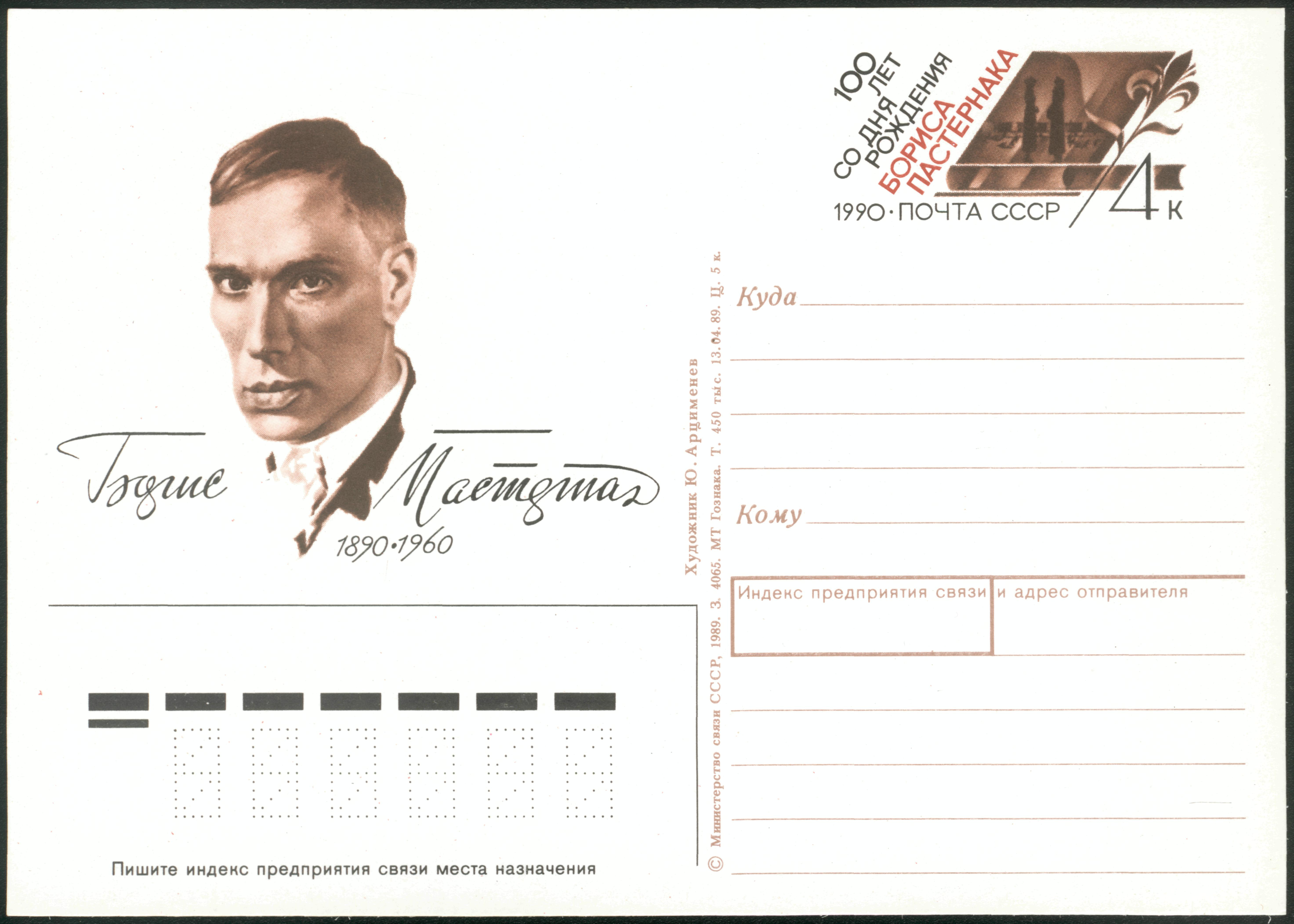 Postcard of the Soviet Union (postal stationery) with a preprinted (original) stamp of 4 kopecks, 1990. Boris Pasternak.